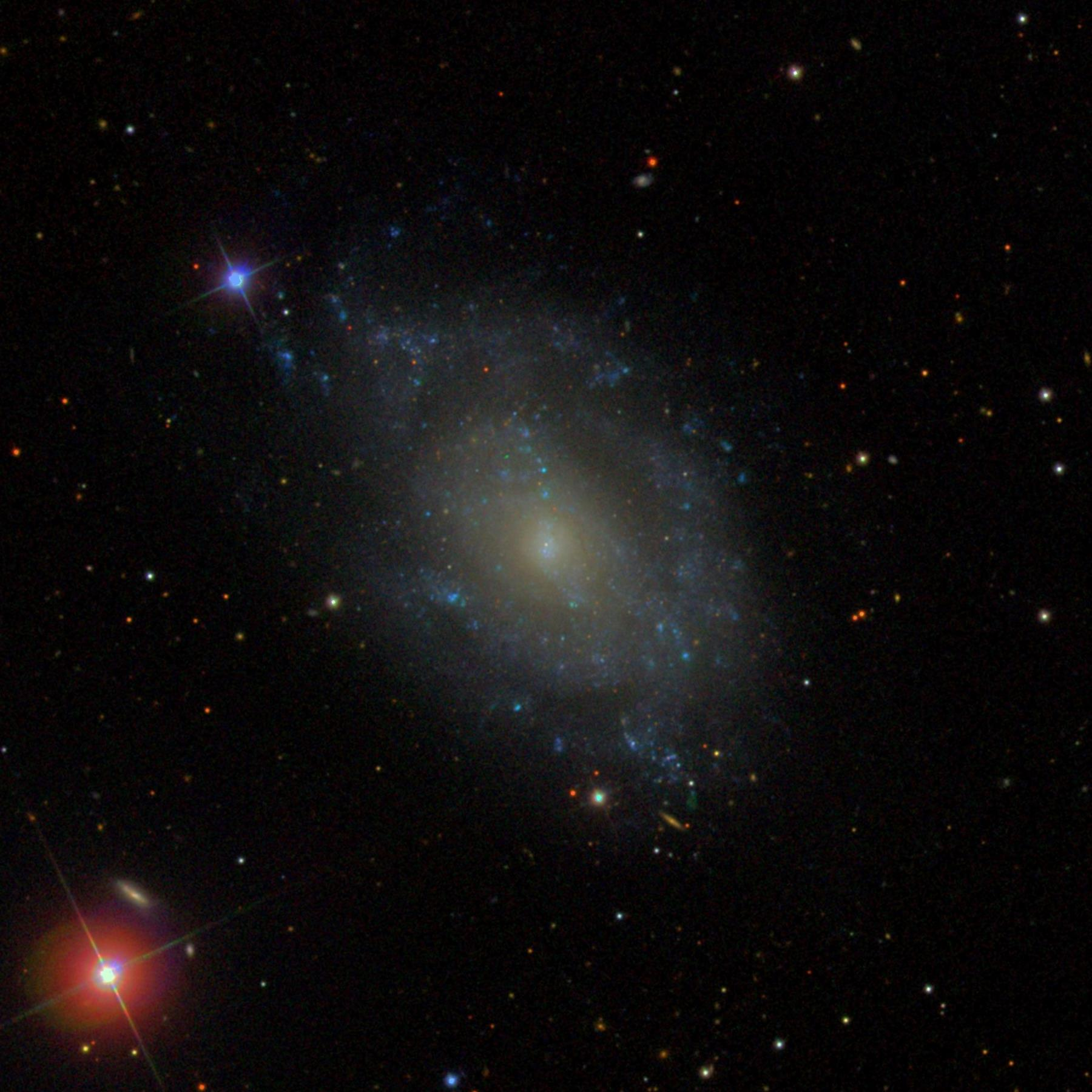 Angle of view: 9' × 9' (0.3" per pixel), north is up.